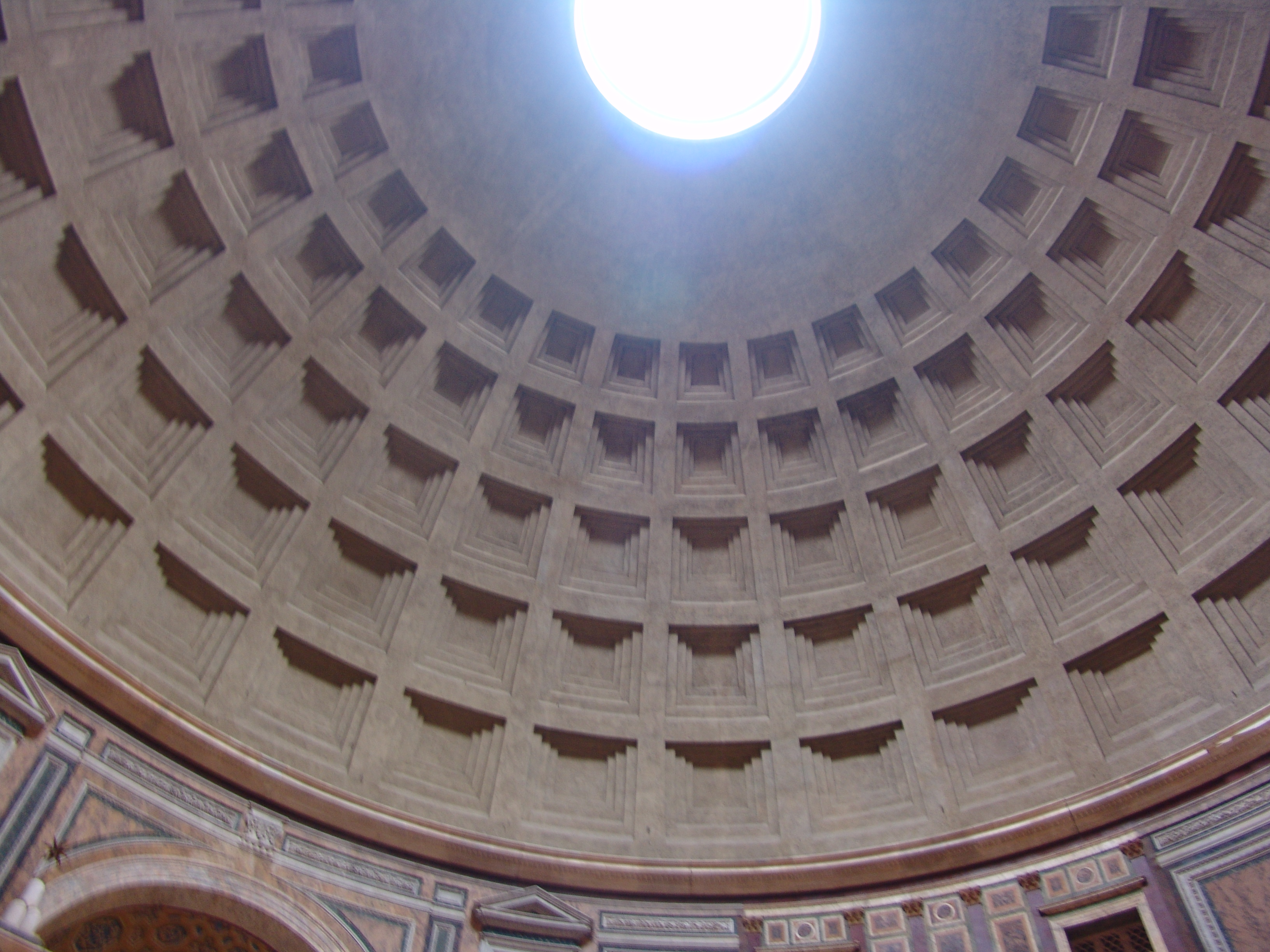 Kuppel des Pantheon in Rom, fotografiert durch Walter Hochauer (roughly:Dome of the Pantheon in Rome, photographs by walter Hochauer)